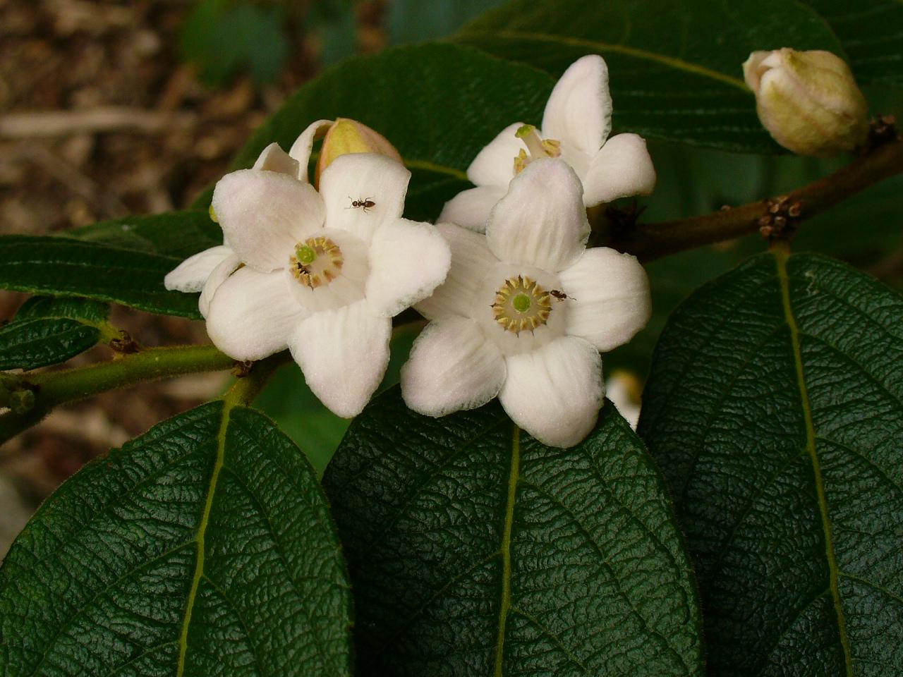 Samyda dodecandra, Fairchild Tropical Botanic Garden, Miami, FL, USA